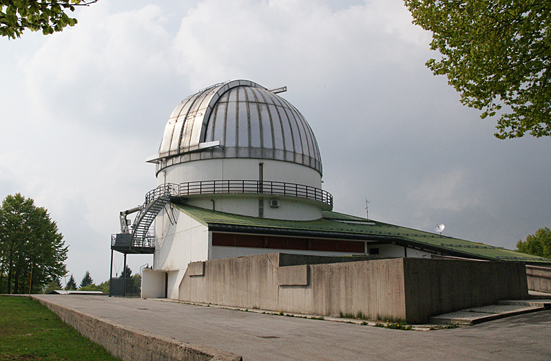 The Cima Ekar Observing Station, also known as the Stazione osservativa di Asiago Cima Ekar, IAU code 098